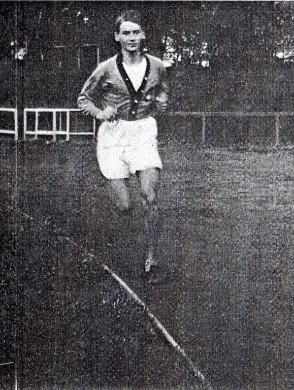 IThe artist Ivan Lönnberg (1891 – 1918) running